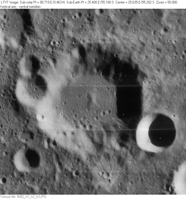 Crater Asclepi. Detail from Lunar Orbiter IV-082H. High resolution scans from the USGS Lunar Orbiter Digitization Project remapped to a north-up aerial view by LTVT.